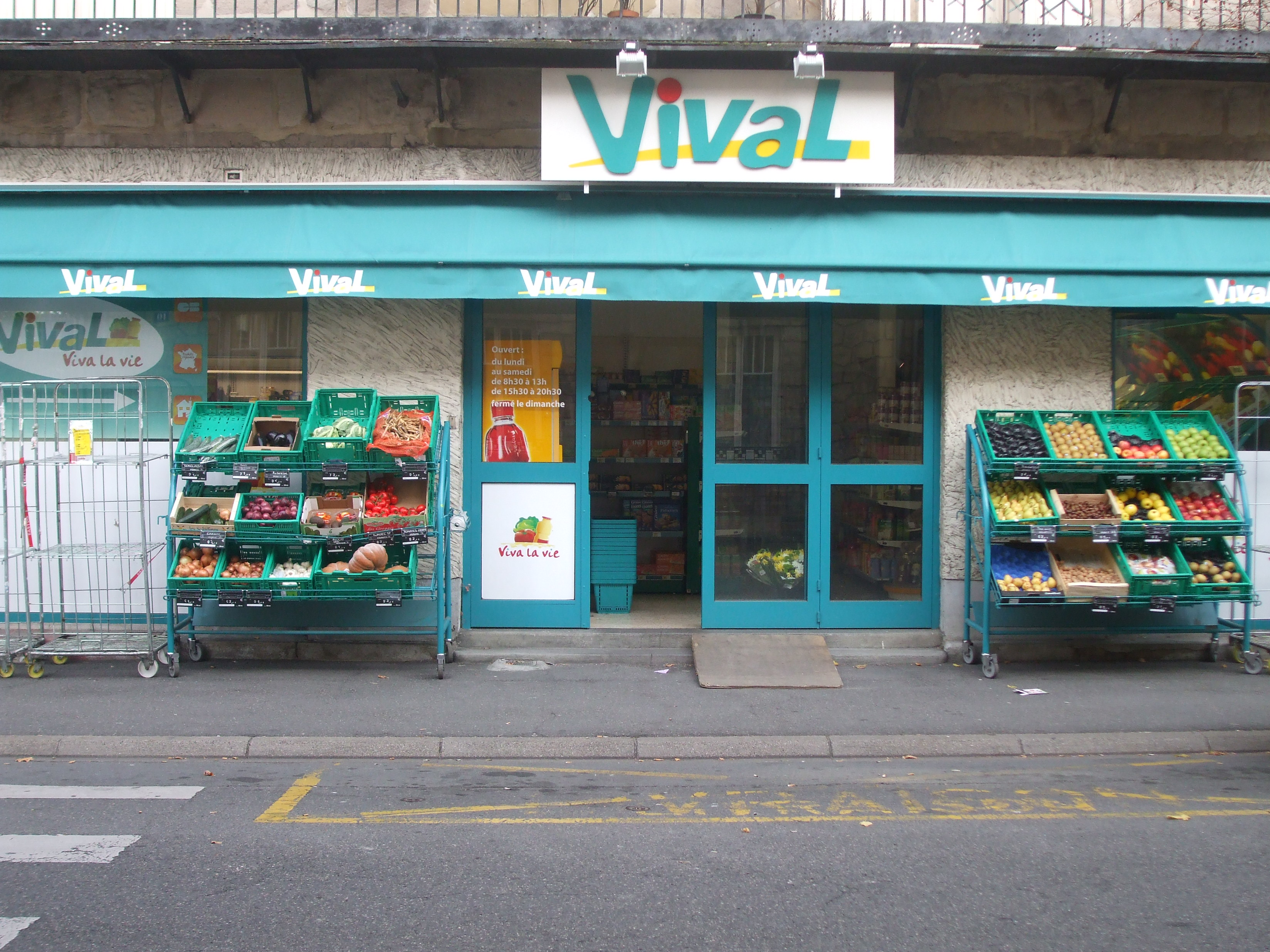 Grocery Vival, 9, avenue Alsace Lorraine, Brive la Gaillarde, France